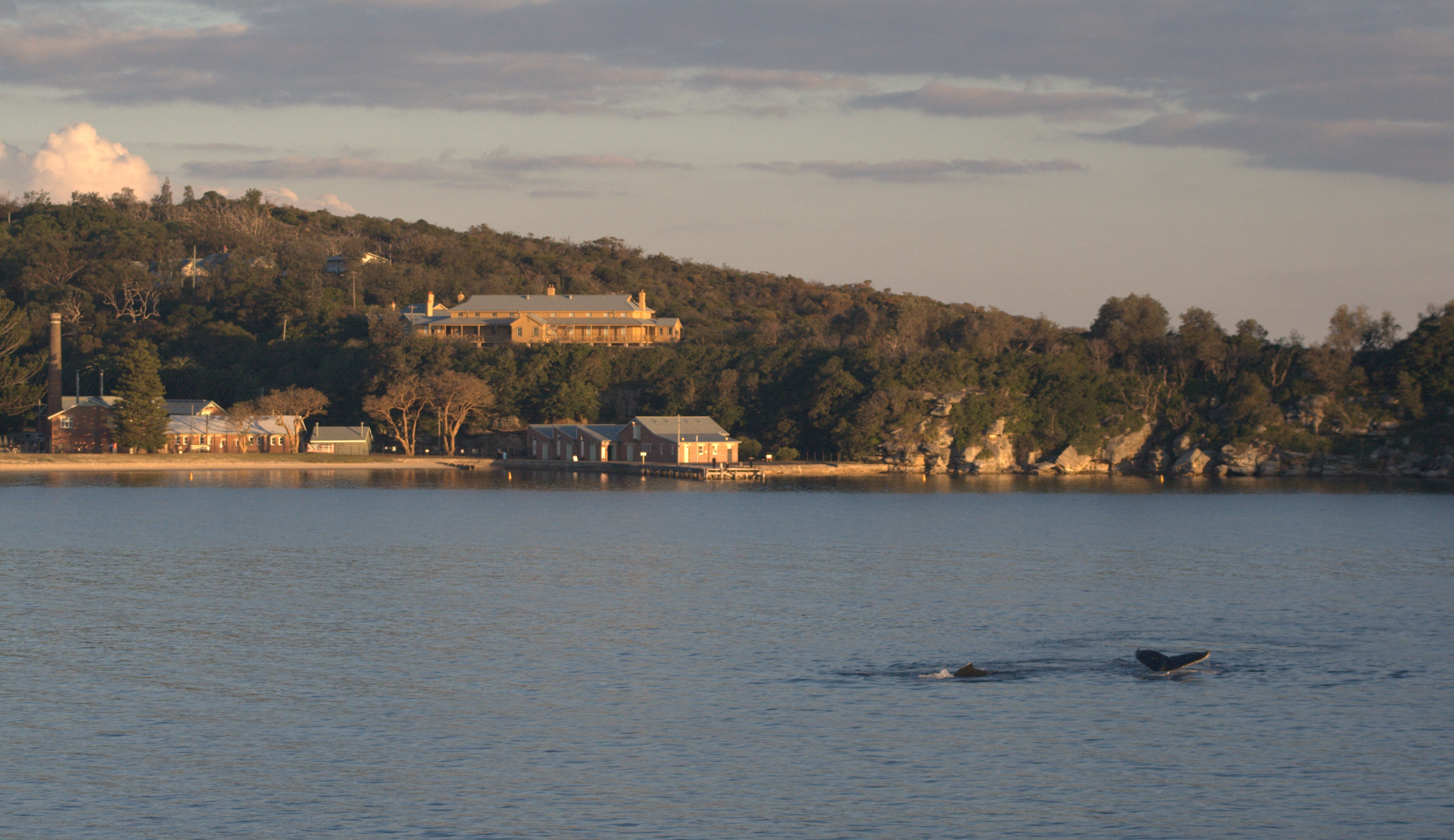 North Head, Sydney. Photograph of The Hospital, Boiler House and Wharf at Quarantine Station, with humpback whales passing by.